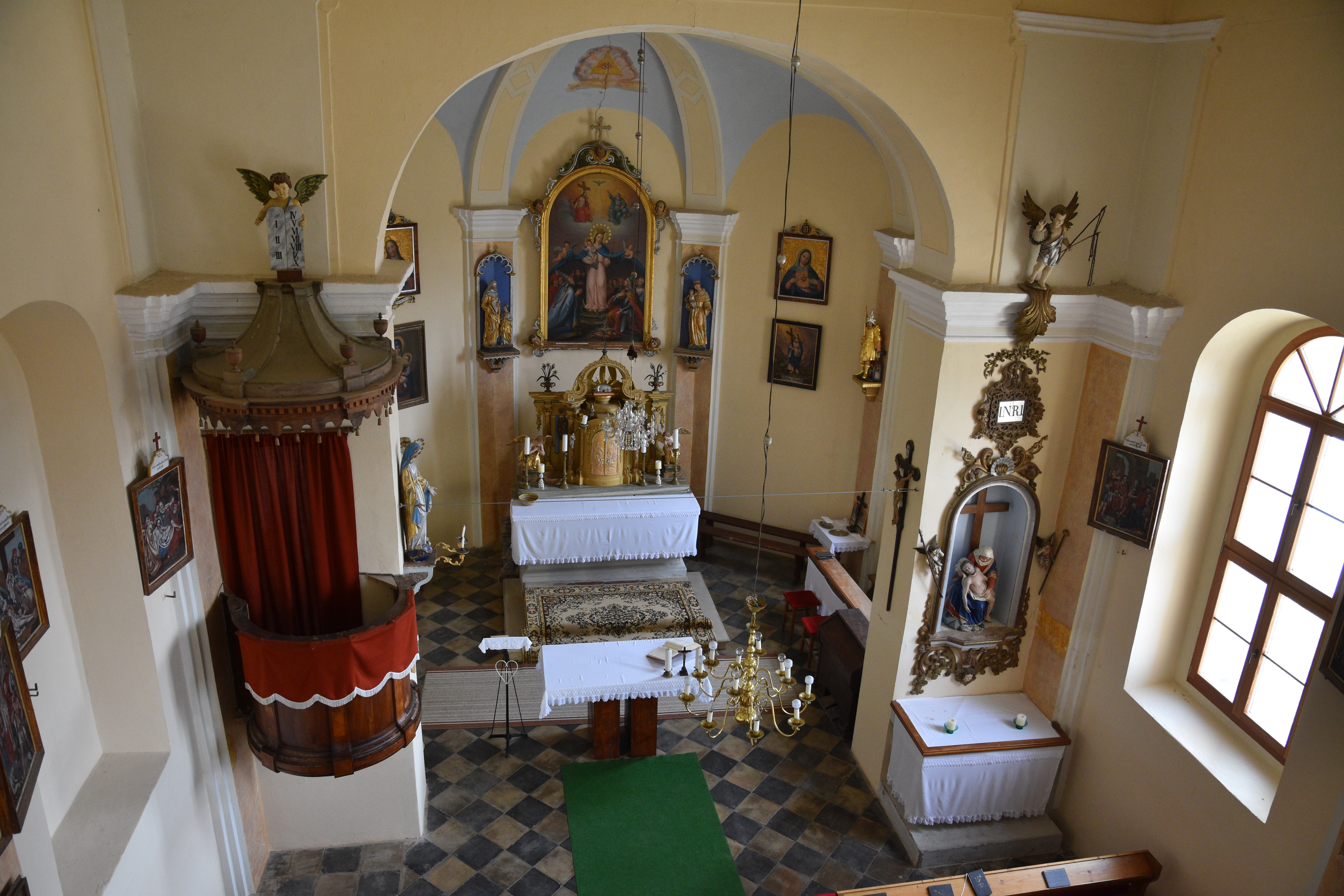 Church Our Lady of the Snow Church, Fikšinci Interior